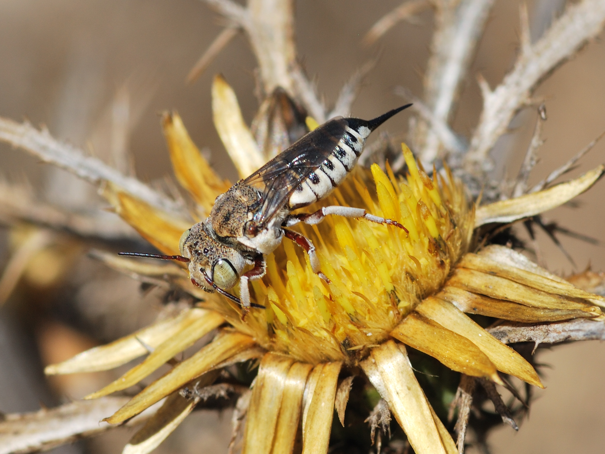 Female cuckoo bee (Coelioxys acanthura, det. Nicolas Vereecken 2012) on capitulum of Carlina curetum, Mount Carmel, Israel, August 21 2009, 13:21.